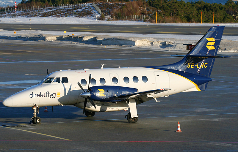 Direktflyg